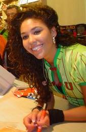 Dutch singer Hind Laroussi, known professionally just as "Hind"